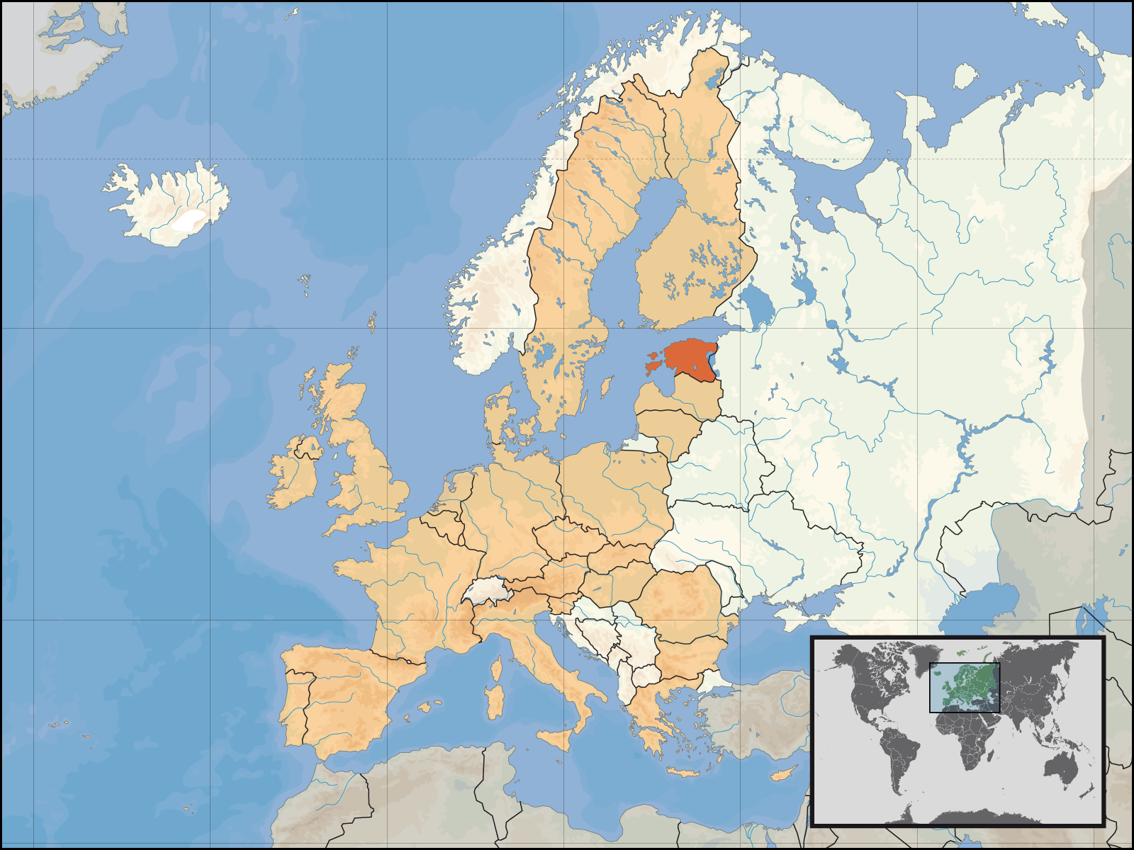 Location of Estonia within Europe and the European Union on the 1st of January 2007.